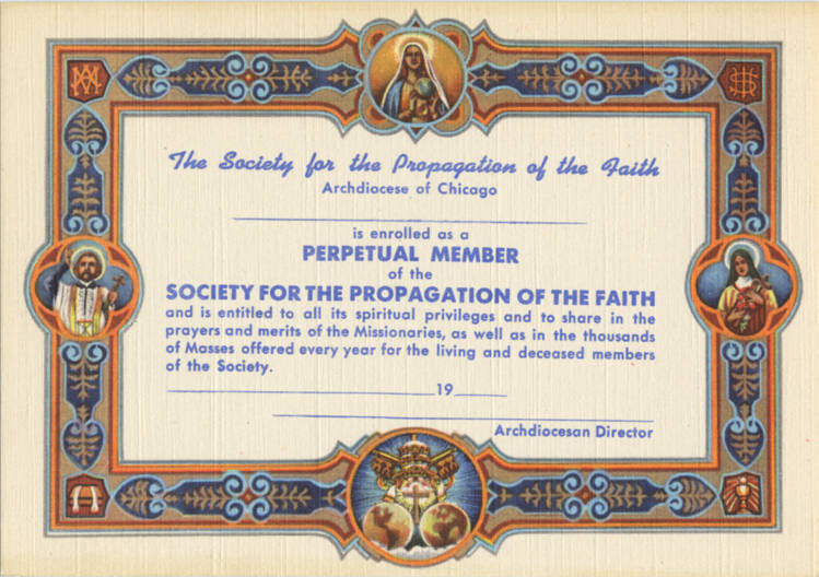 Society For The Propagation Of The Faith